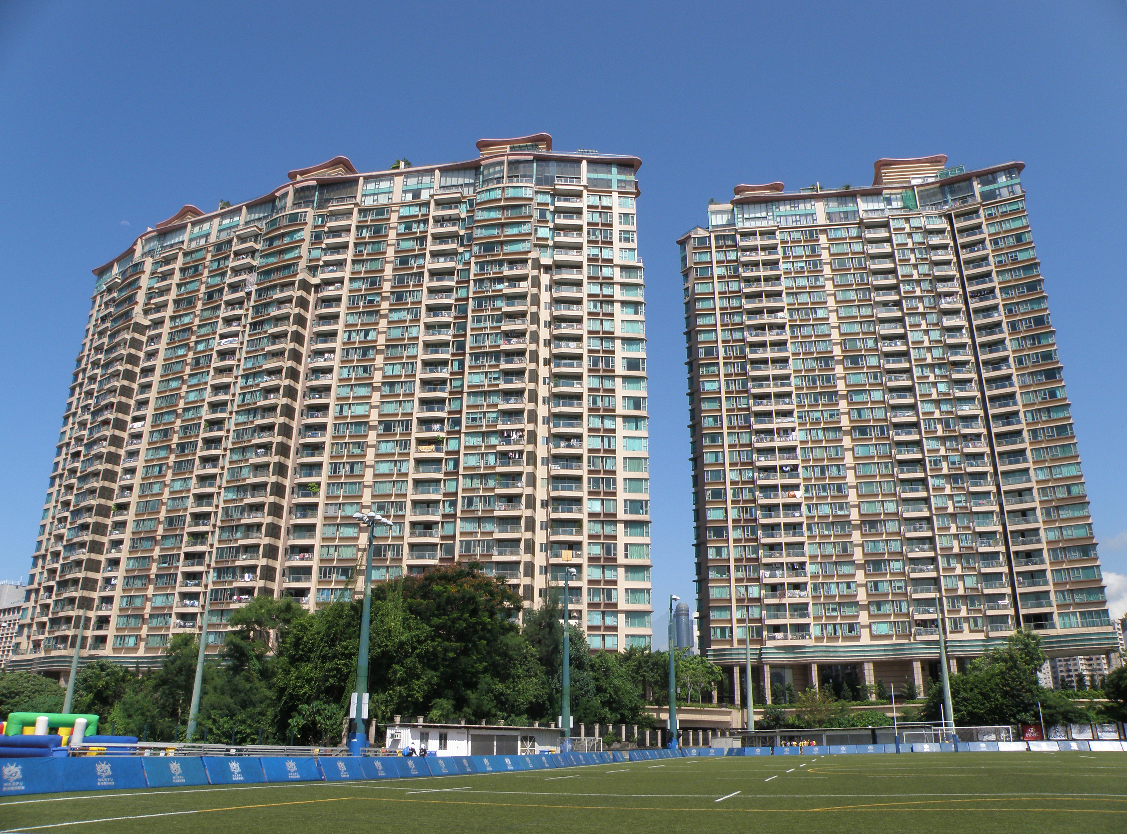 Parc Palais in King's Park, Hong Kong.